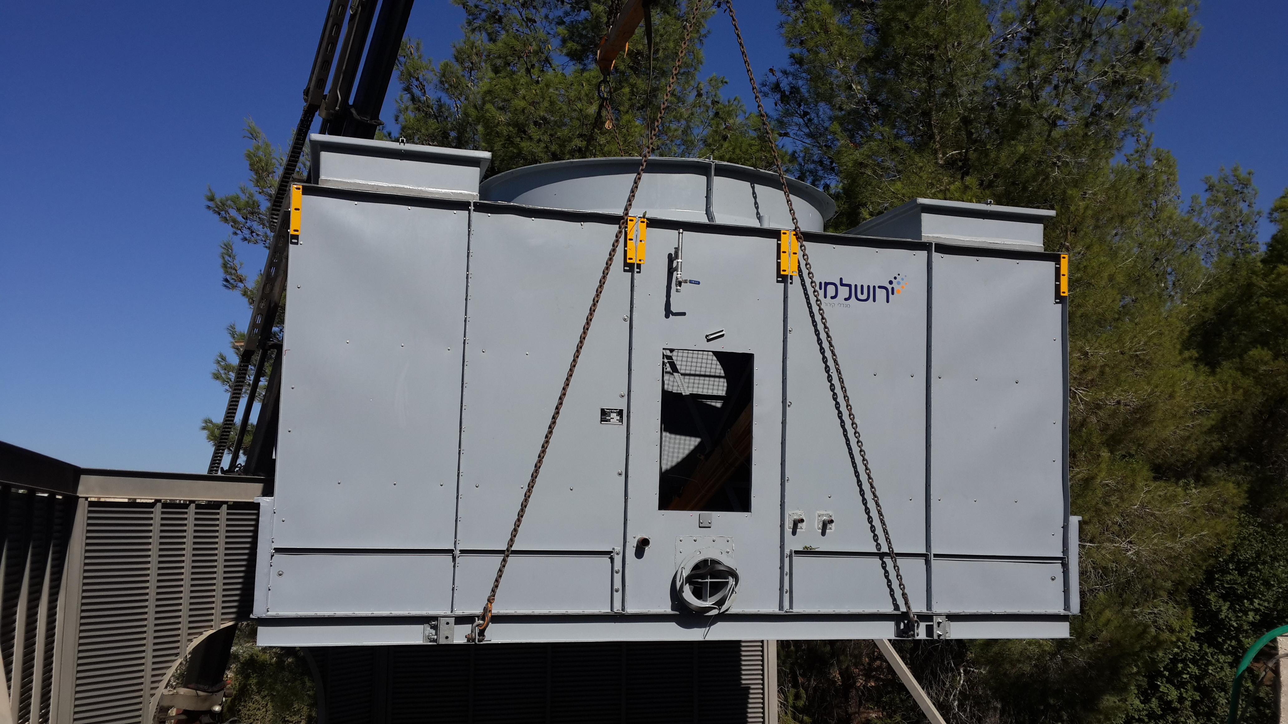 YWCT Crossflow cooling tower